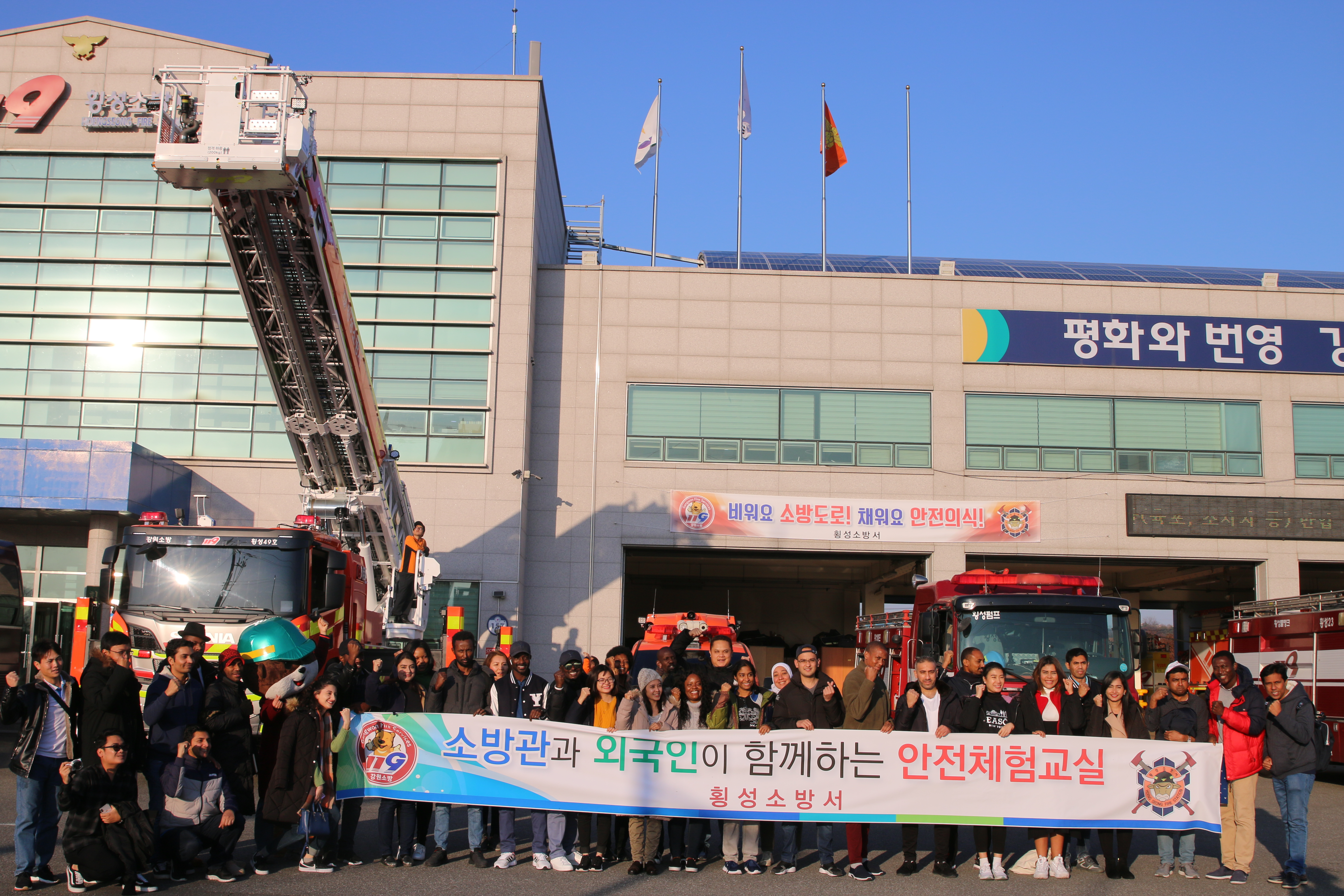 Yonsei-KOICA Scholarship Program(The Graduate School of Government, Business, and Entrepreneurship), Hoengseong Fire Station